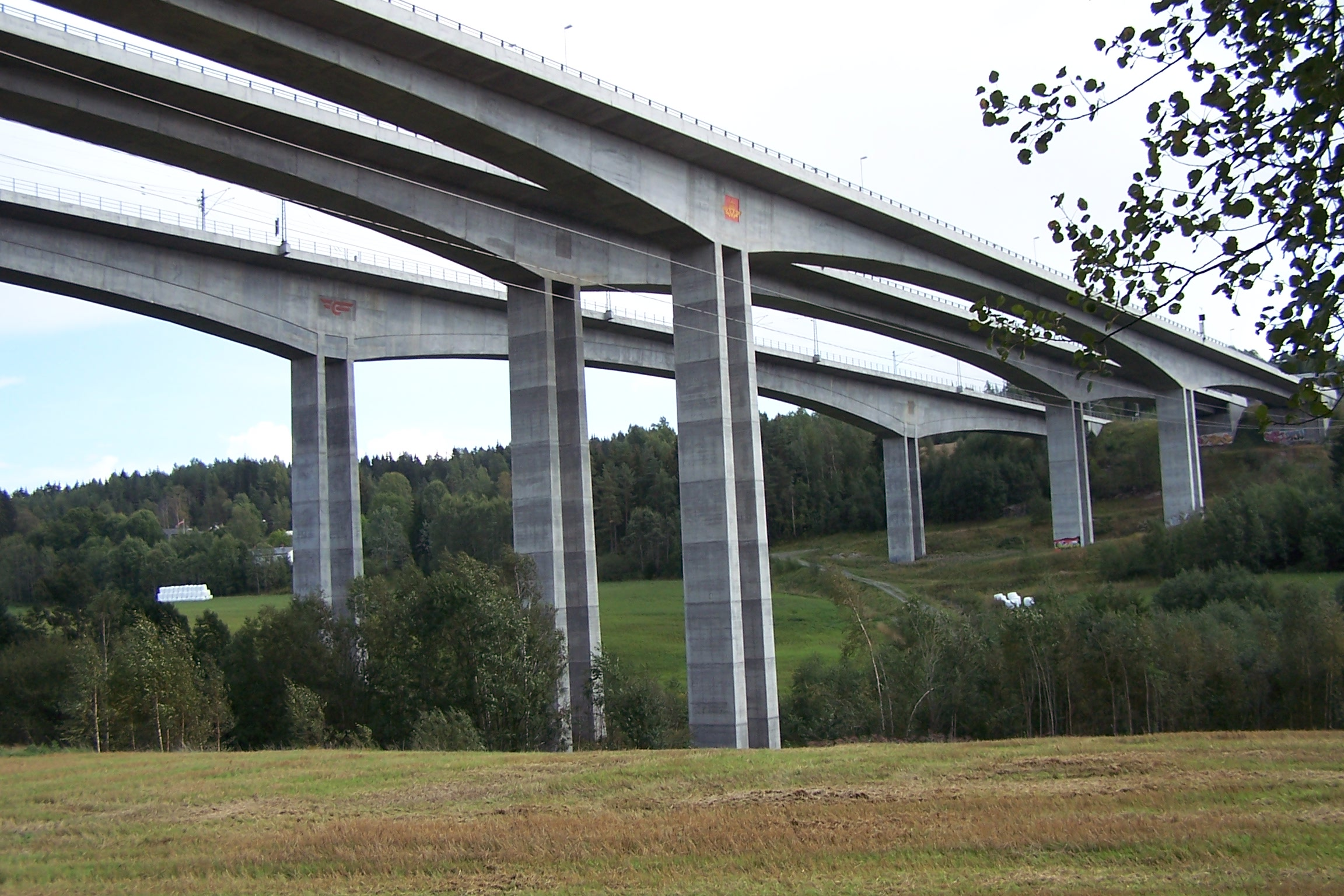 Hølendalen bruer, two highway and one railway bridge in Hølen, Akershus, Norway